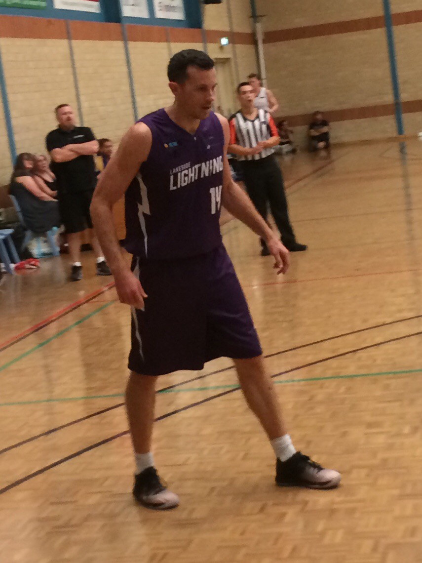 Jarrad Prue at the 2018 SBL Pre-Season Blitz